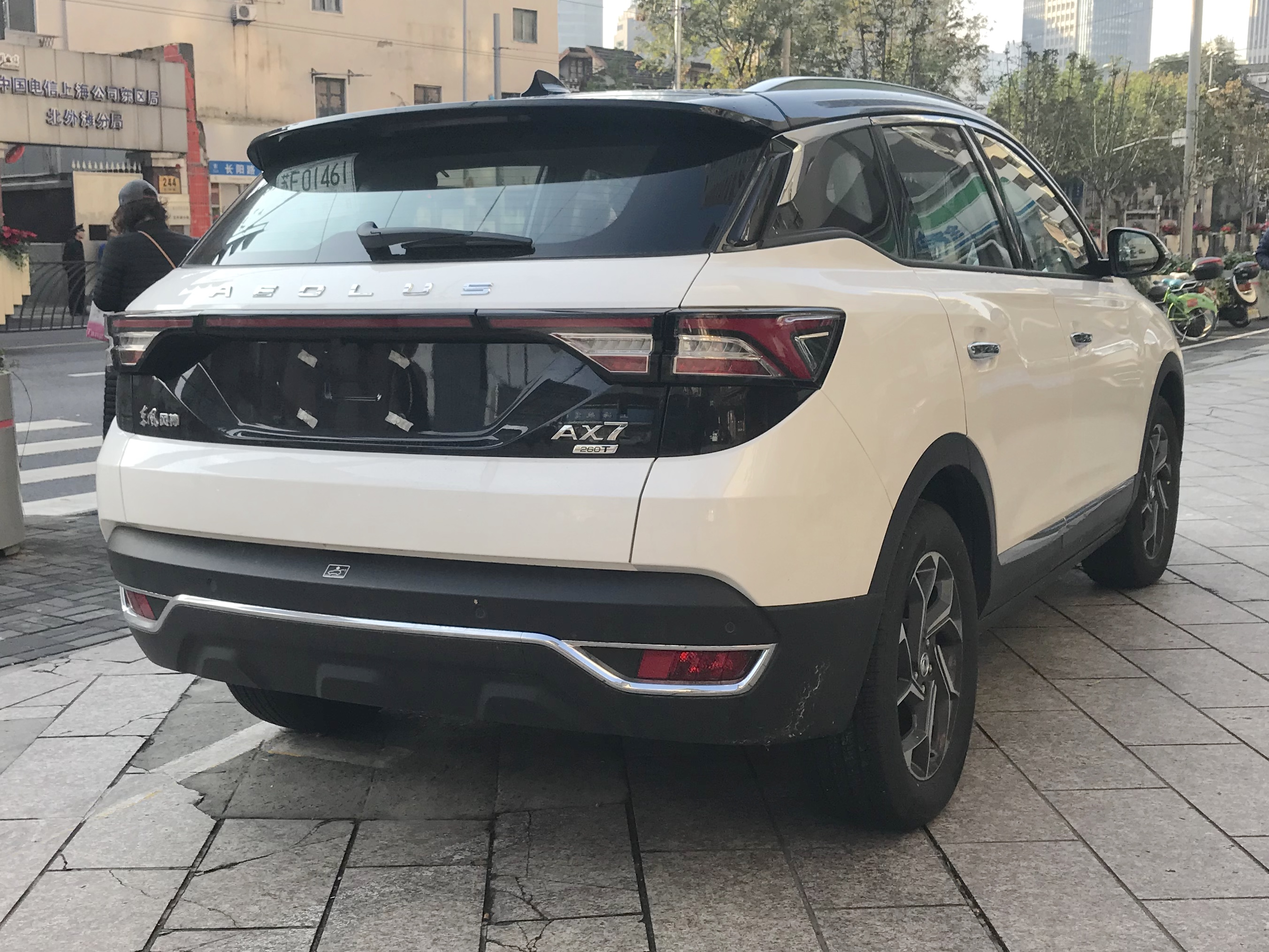 Dongfeng Fengshen (Aeolus) AX7 second generation rear view